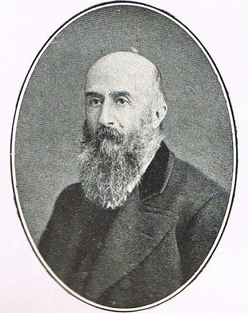 Spanish General that commanded the 2nd. brigade of lancers, of the division of cavalry at the Spanish-Moroccan War in 1860